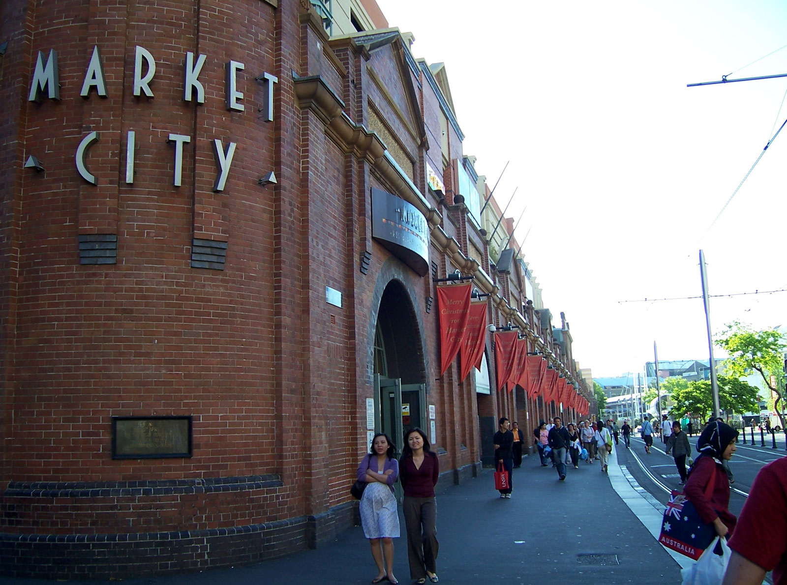 Market City building, Chinatown, Sydney. Taken by Enoch Lau on 17 November 2005. As a courtesy, please let me know if you alter this image or this image description page. Original filename was 100_0631.JPG.